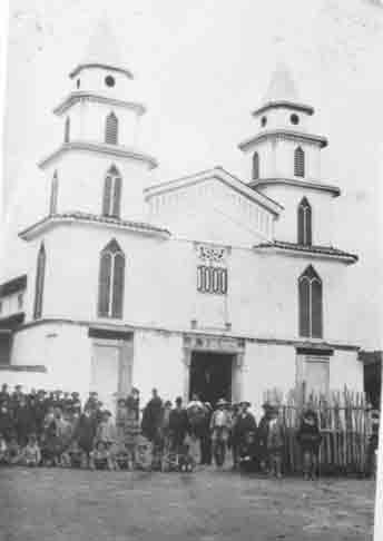 Iglesia Nuestra Señora del Carmen en los años Veinte